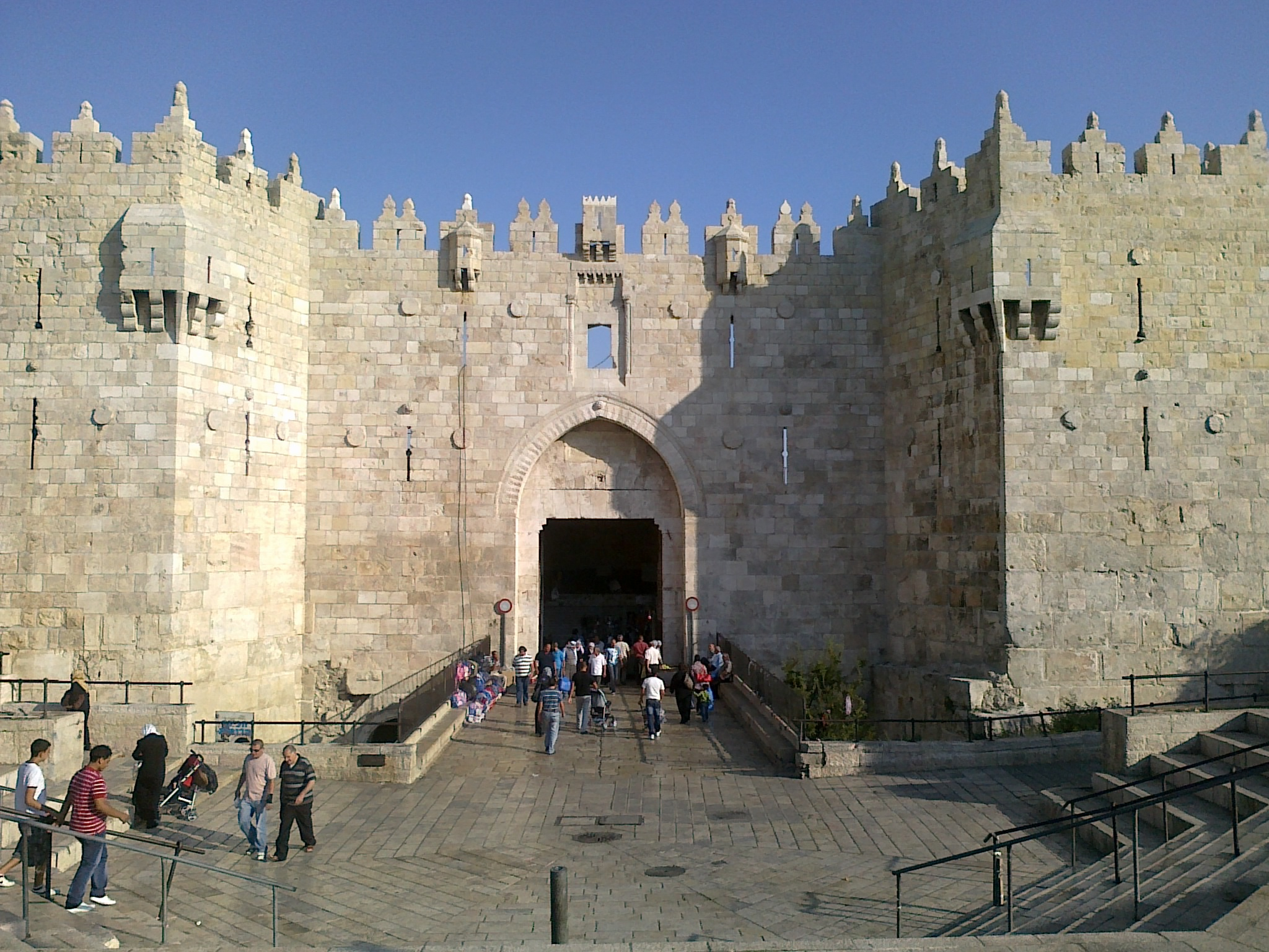 Photo of Damascus Gate, 5 September 2011